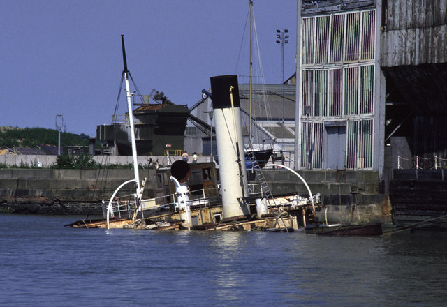 John H Amos, Chatham Paddle tug with a severe case of rising damp. Currently subject to serious (last ditch?) efforts to preserve her, including Lottery funding.